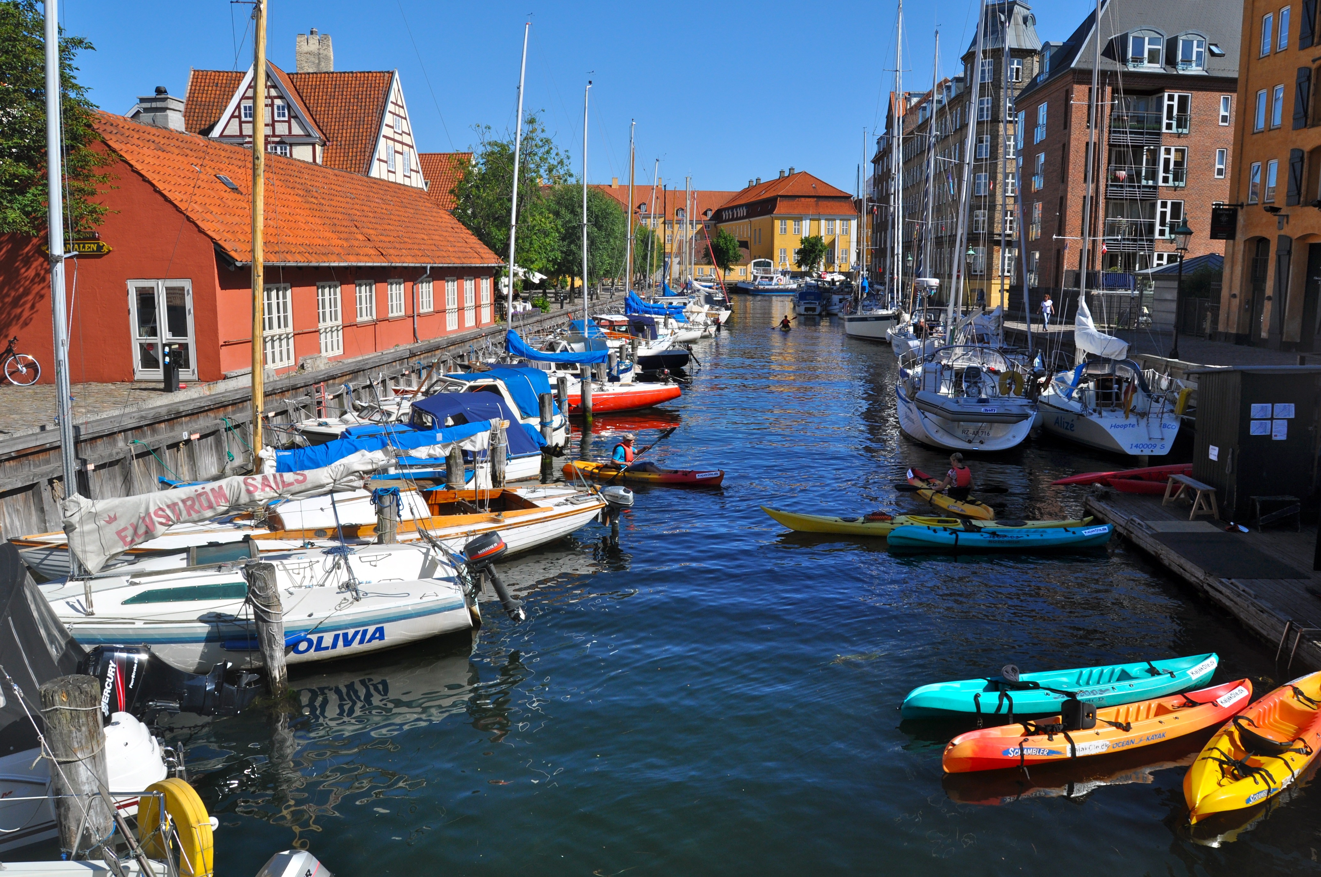 Wilders Kanal with Wilders Bro and Søkvæsthuset in the background in Copenhagen, Denmark